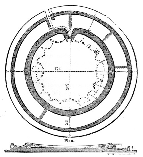 Chun Castle - Morvah - Cornwall - England